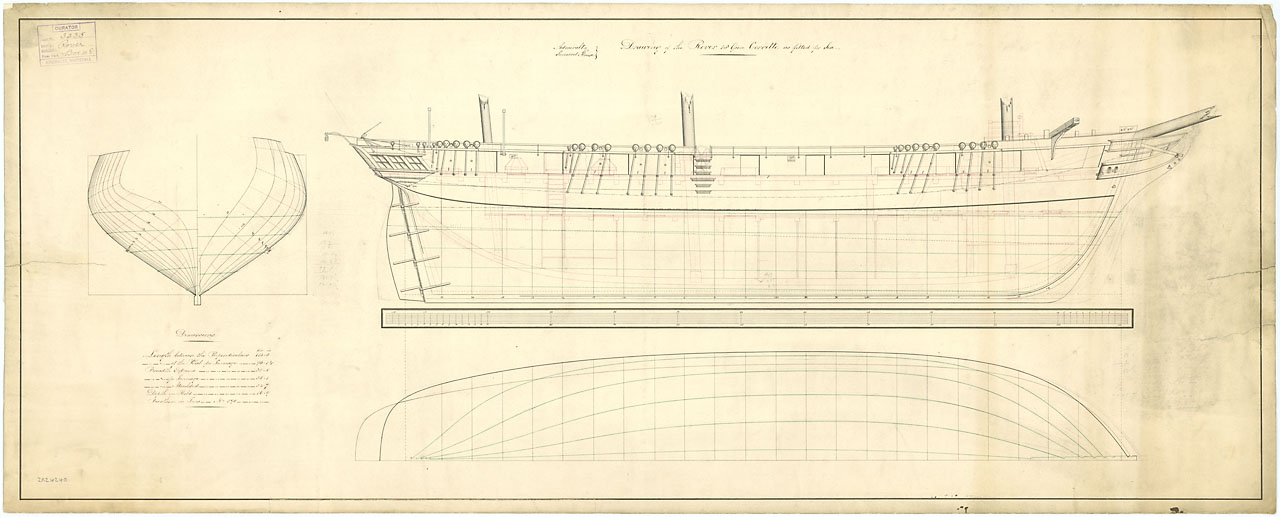 ROVER 1832 lines & profile